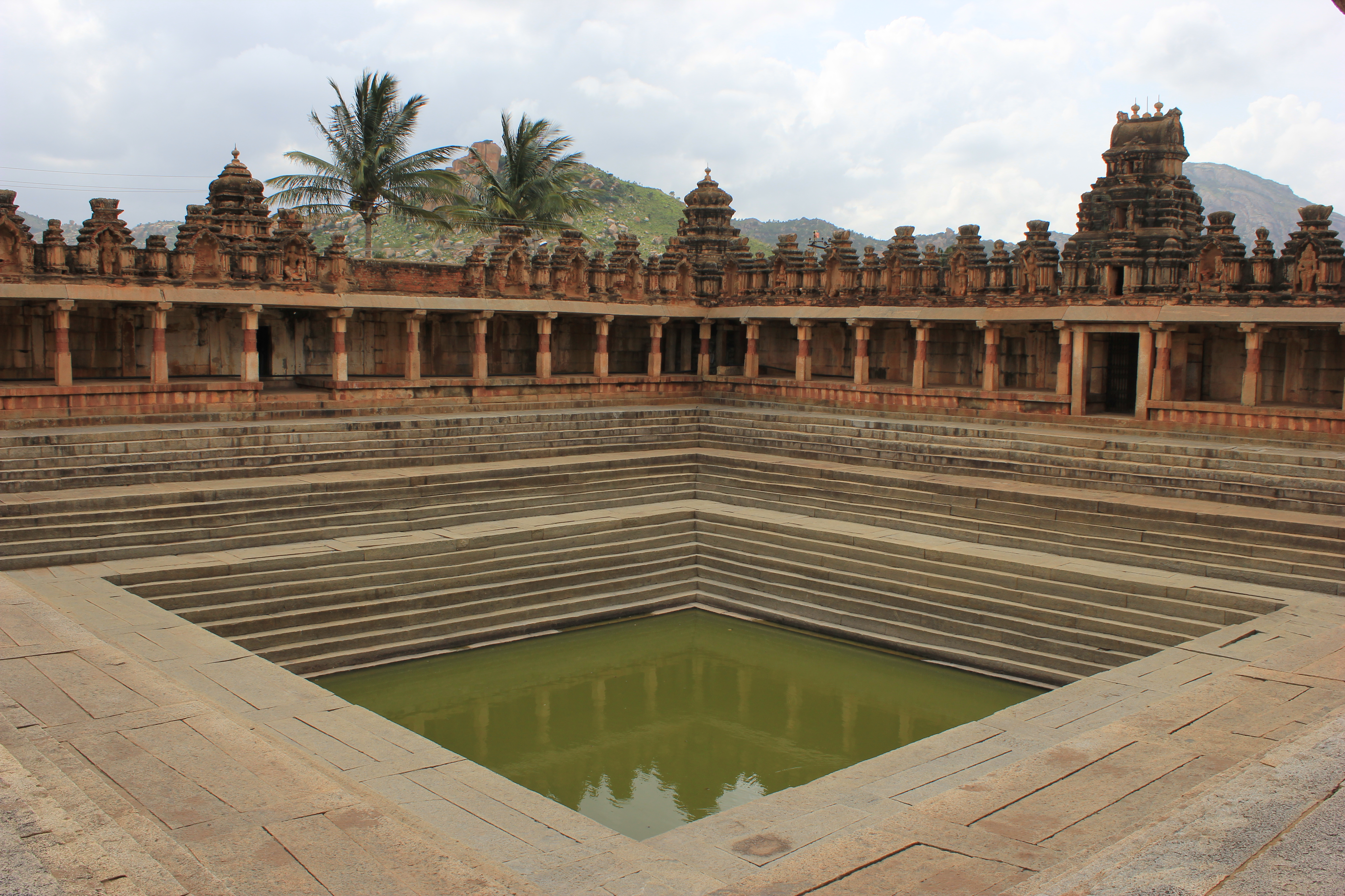 This photograph was taken at the Bhoganandishvara temple (also spelt Bhoganandishwara) at the foot of Nandi Hills, Chikkaballapur district, Karnataka state, India. The temple was originally consecrated during the rule of a local Bana dynasty king around 810 A.D. and the overall style is Dravidian. The large Kalyani (or Pushkarni, temple tank) is assigned to King Krishna Deva Raya of the Vijayanagara Empire.